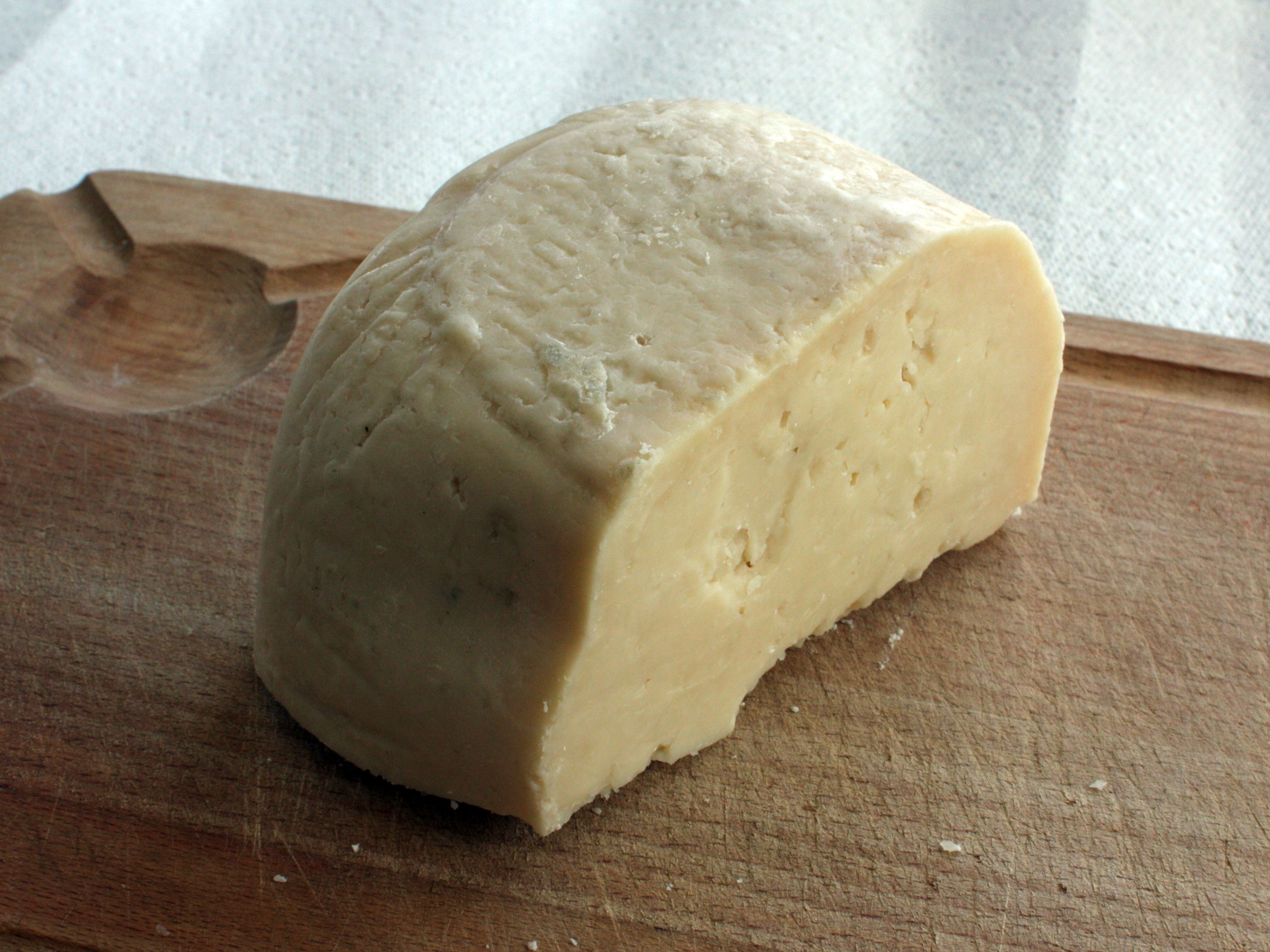 Formaggio di fossa (litterally pit-cheese), an italian cheese.